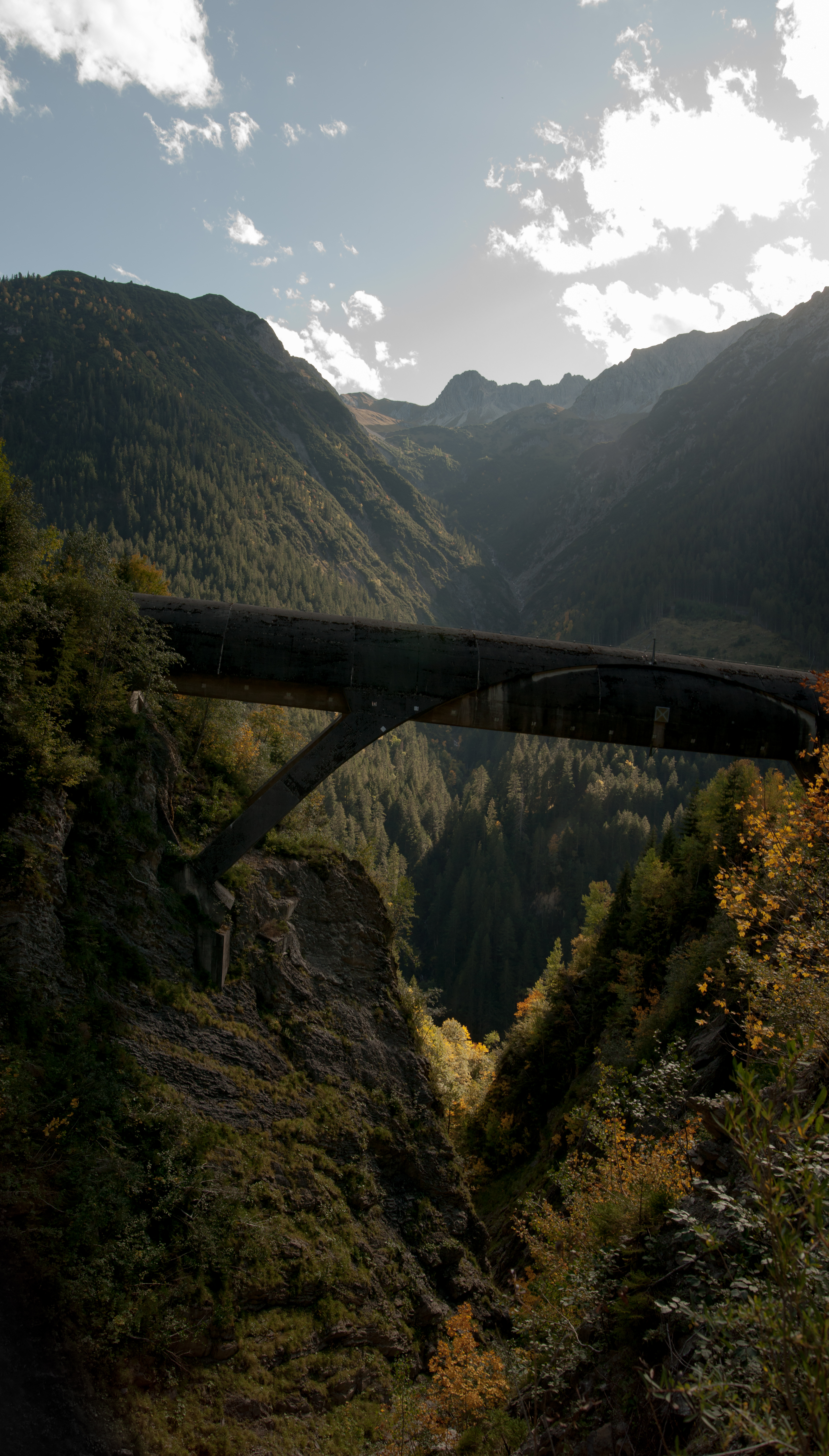 Tunnelbridge in Tyrolean Bschlaber Valley, Austria